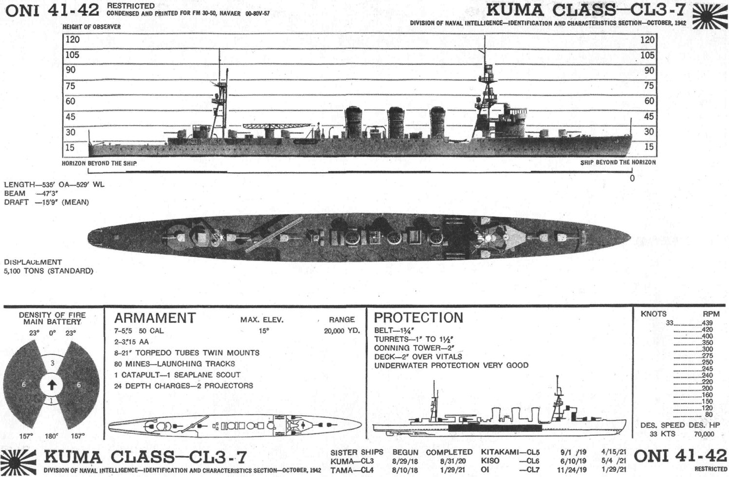 Silhouette of the Japanese light cruiser Kuma